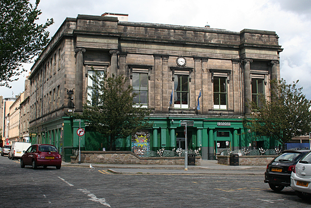 Exchange Buildings